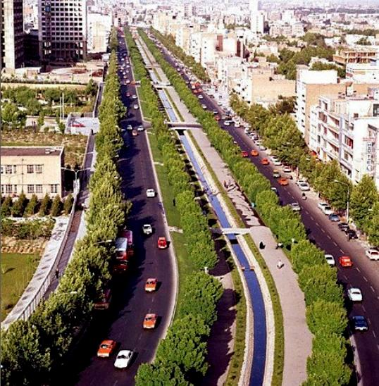 A view of Elizabeth (later Keshavarz) Boulevard of Tehran in mid 1970s (West to East view)